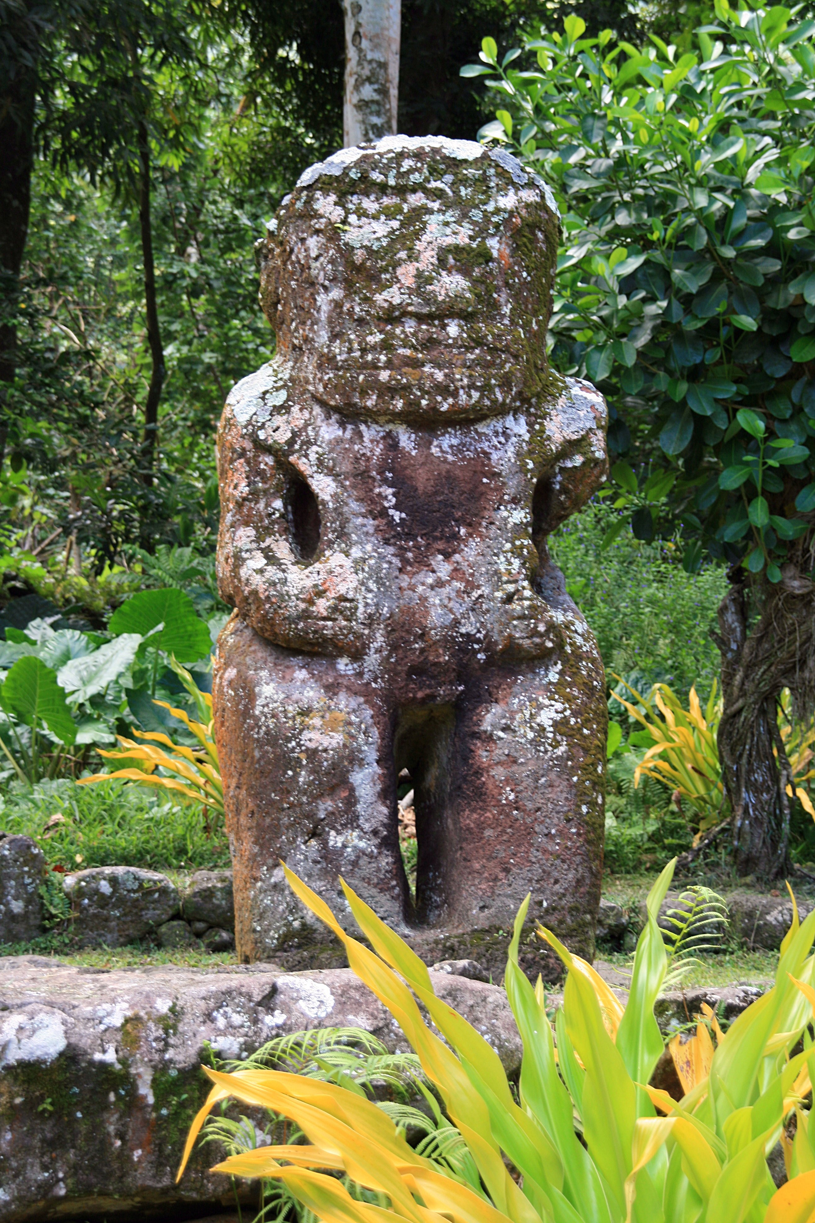 Tiki of the chief Taka'i'i, in the archeological site of Mea'e Te l'Ipona, close to the village of Puamau, island of Hiva Oa, Marquesas islands, French Polynesia.